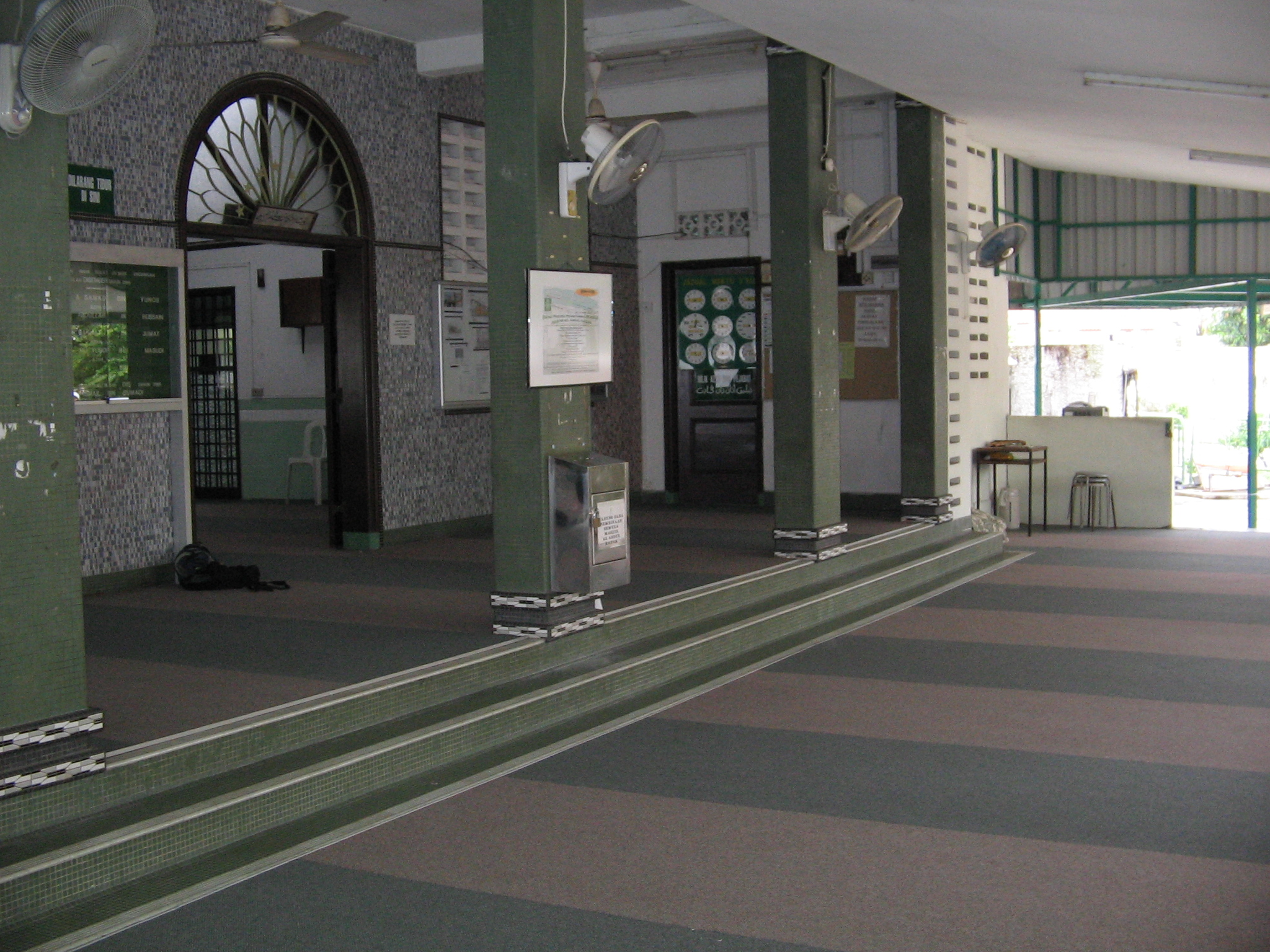 Image of old veranda area. Picture provided by MAAR commmitte member.